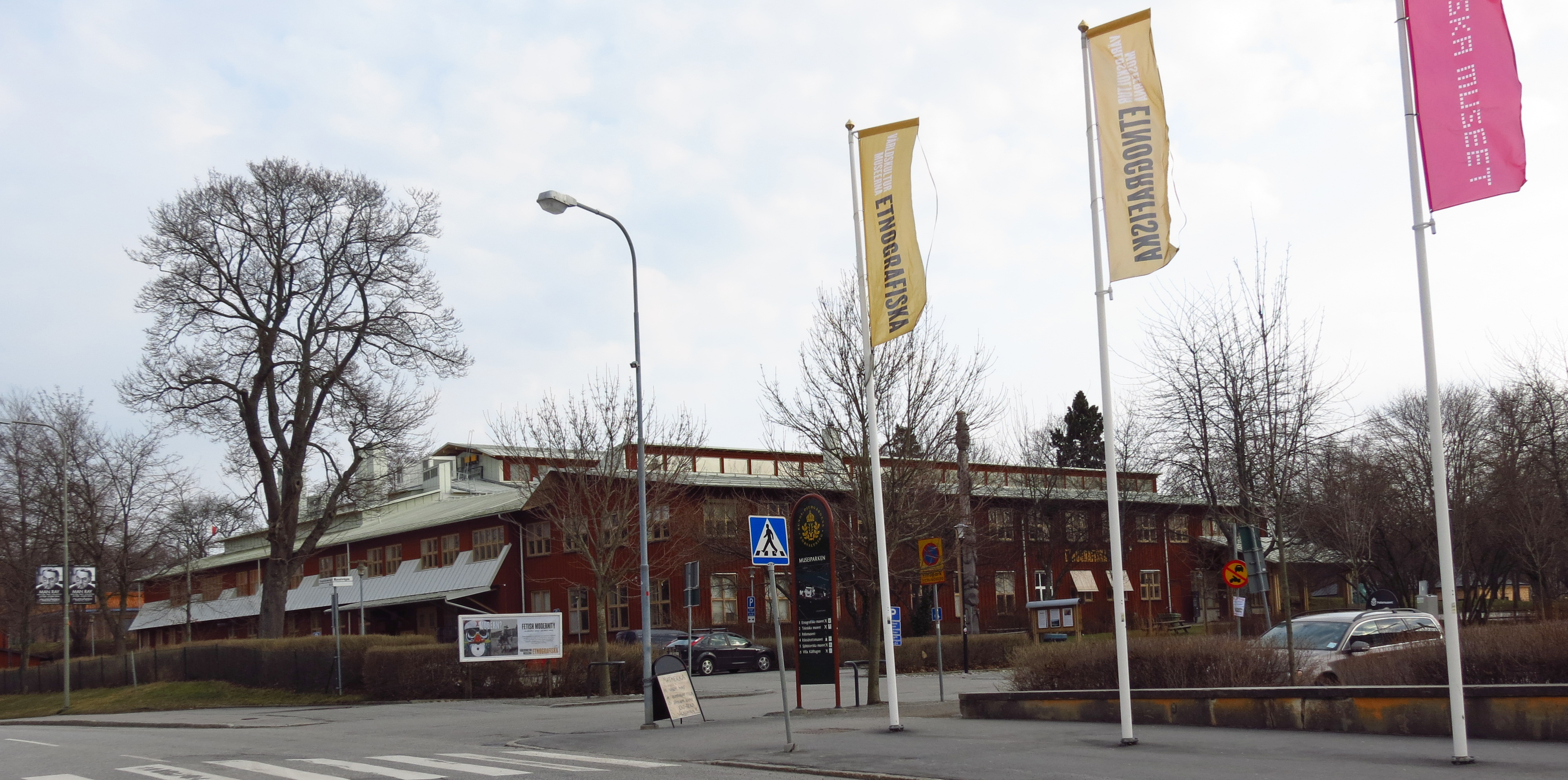 Museum of Ethnography (Etnografiska museet) in Stockholm, Sweden, in March 2014.